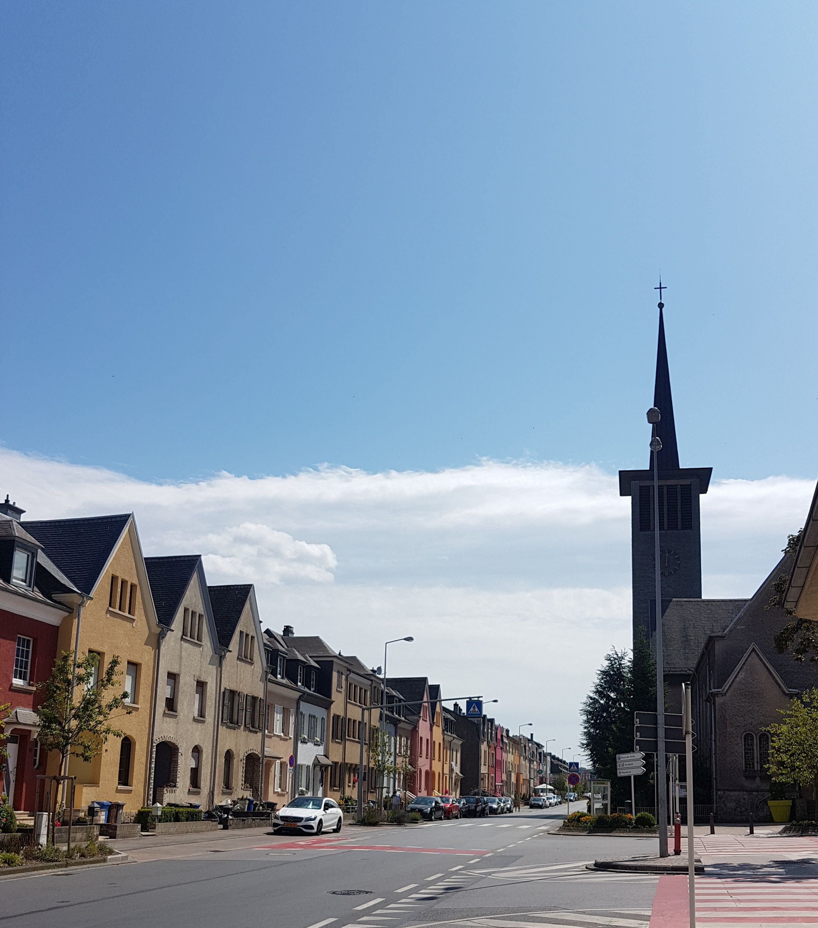 Church Saint-Joseph in Differdange (Fousbann) in the Grand Duchy of Luxembourg.